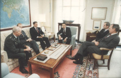 President Ronald Reagan, George Bush, John Vessey, William Taft, Caspar Weinberger, and Robert McFarlane in a defense briefing. Individuals are sitting on sofa and chairs around low table.